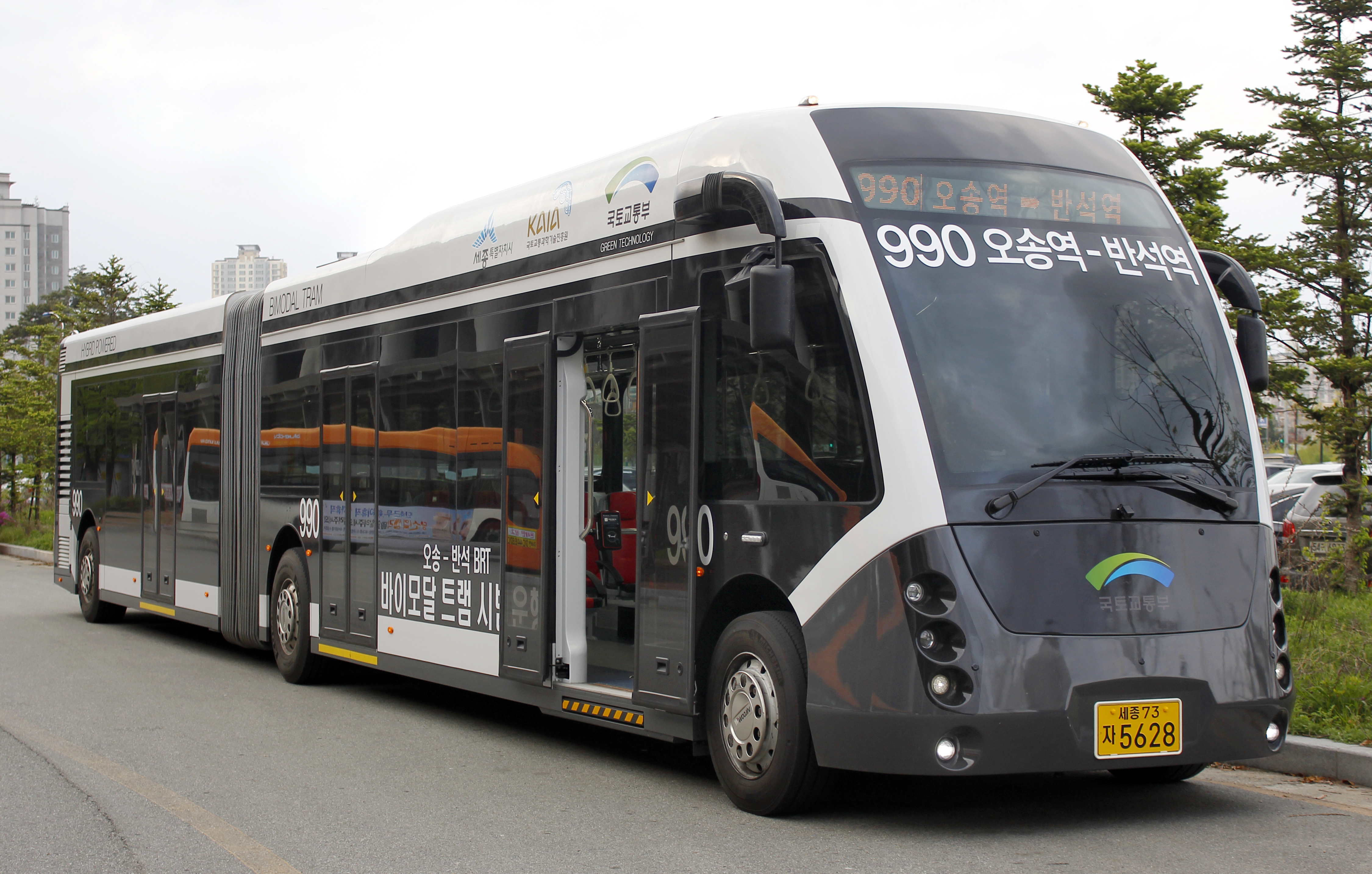 Test run of KRRI Bimodal Tram (APTS Phileas) in Sejong, South Korea.